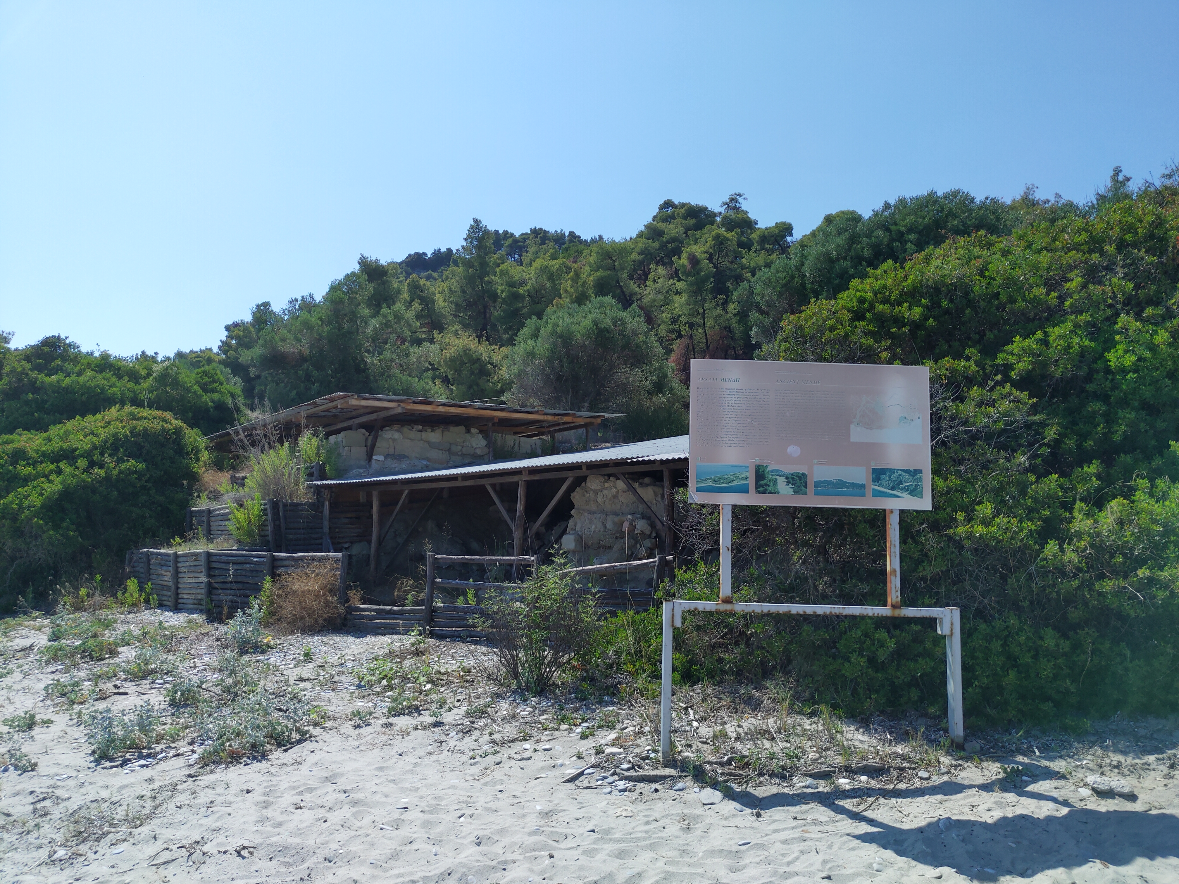 Archaeological site of ancient Mende in modern Kassandra, Chalkidiki, Greece.